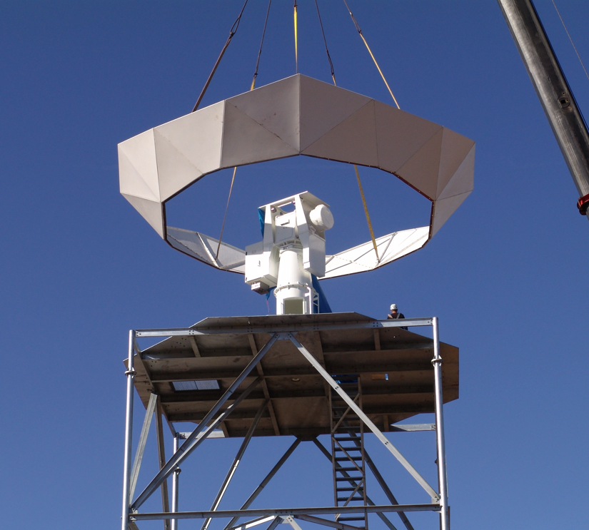 OU-PRIME 2